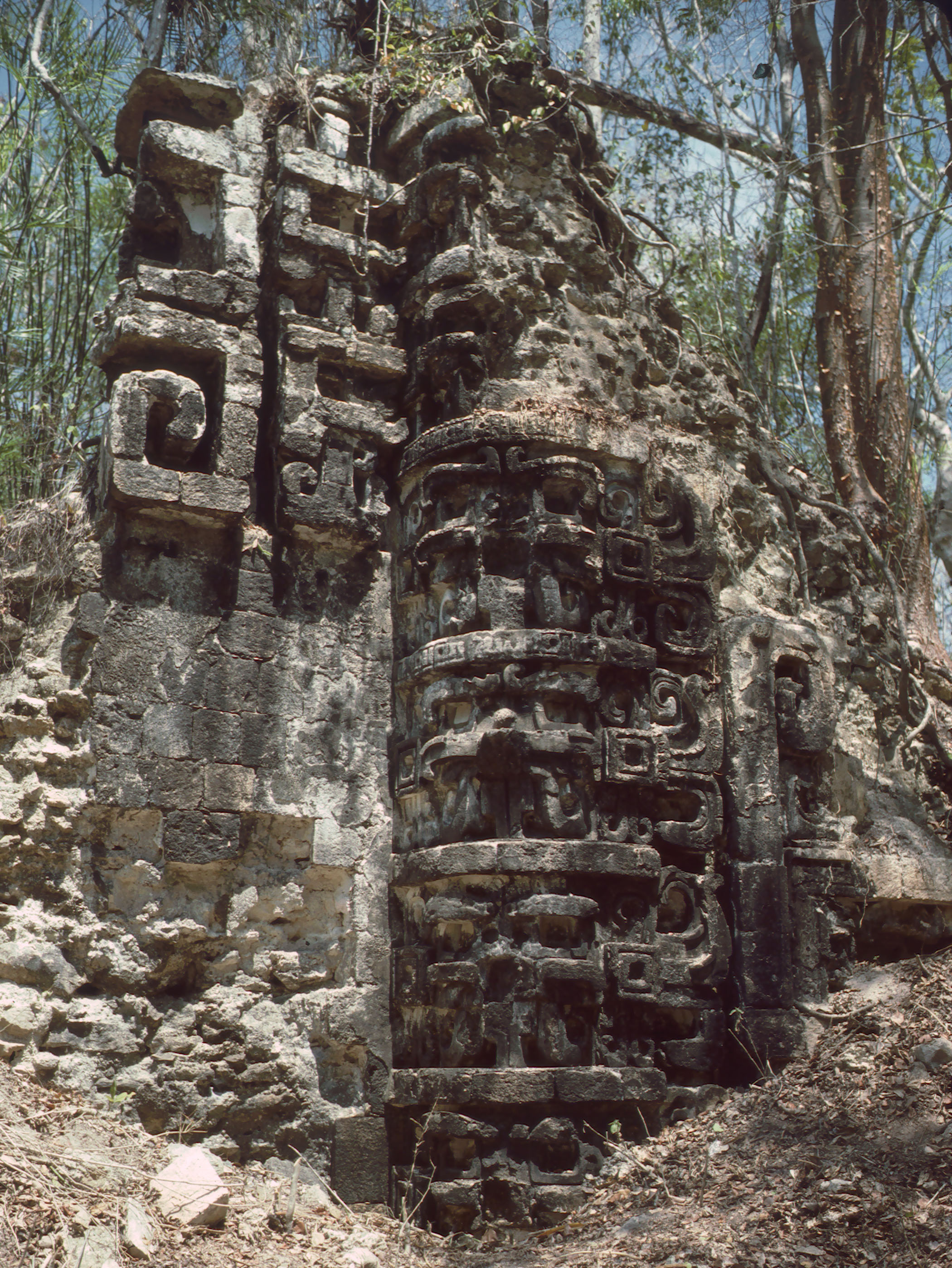 Chunlimón, Campeche, Mexico: part of reptile's mouth entrecne